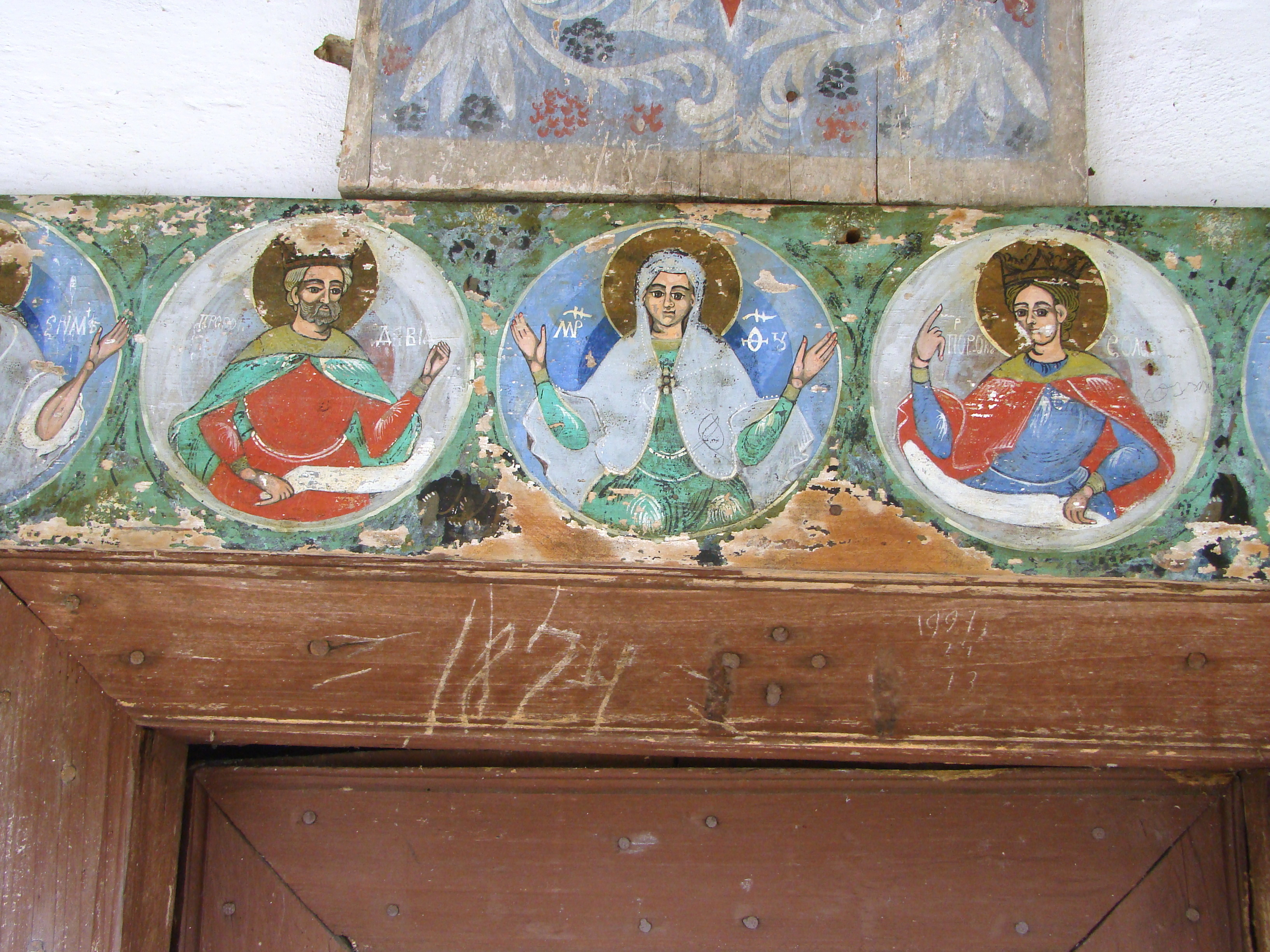 Wooden church in Doseni, Gorj county, Romania